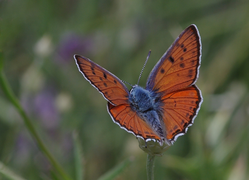 Wing upperside of a male "Purple-shot Copper" butterfly (Lycaena alciphron). Erdemli, Icel, TurkeyTürkçe: "Büyük morbakırgüzeli" (Lycaena alciphron) erkek birey kanat üstü görünümü. Erdemli, İçel, Türkiye.